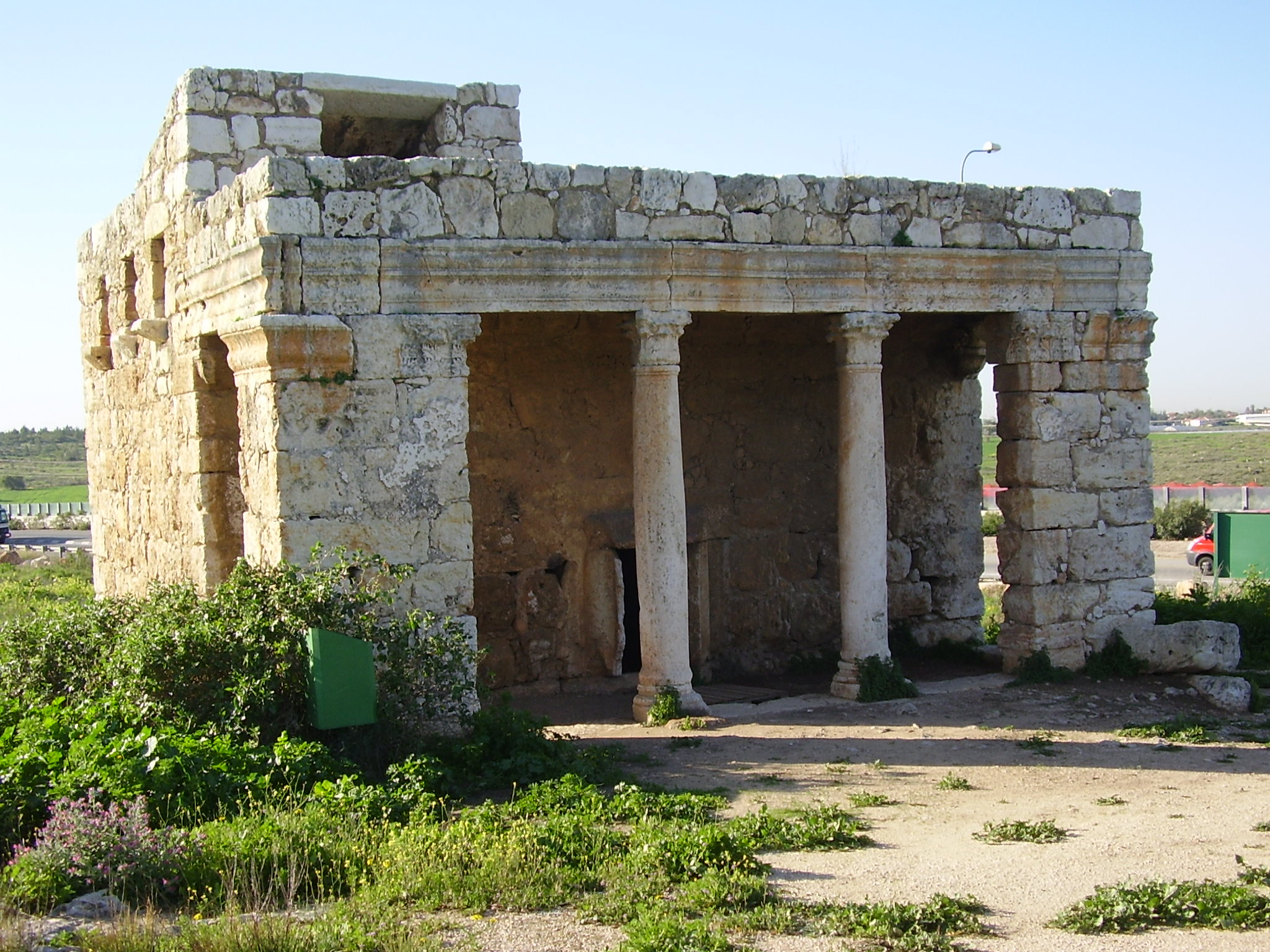 roman mausoleum in mazor, israel המאוזולאום במזור